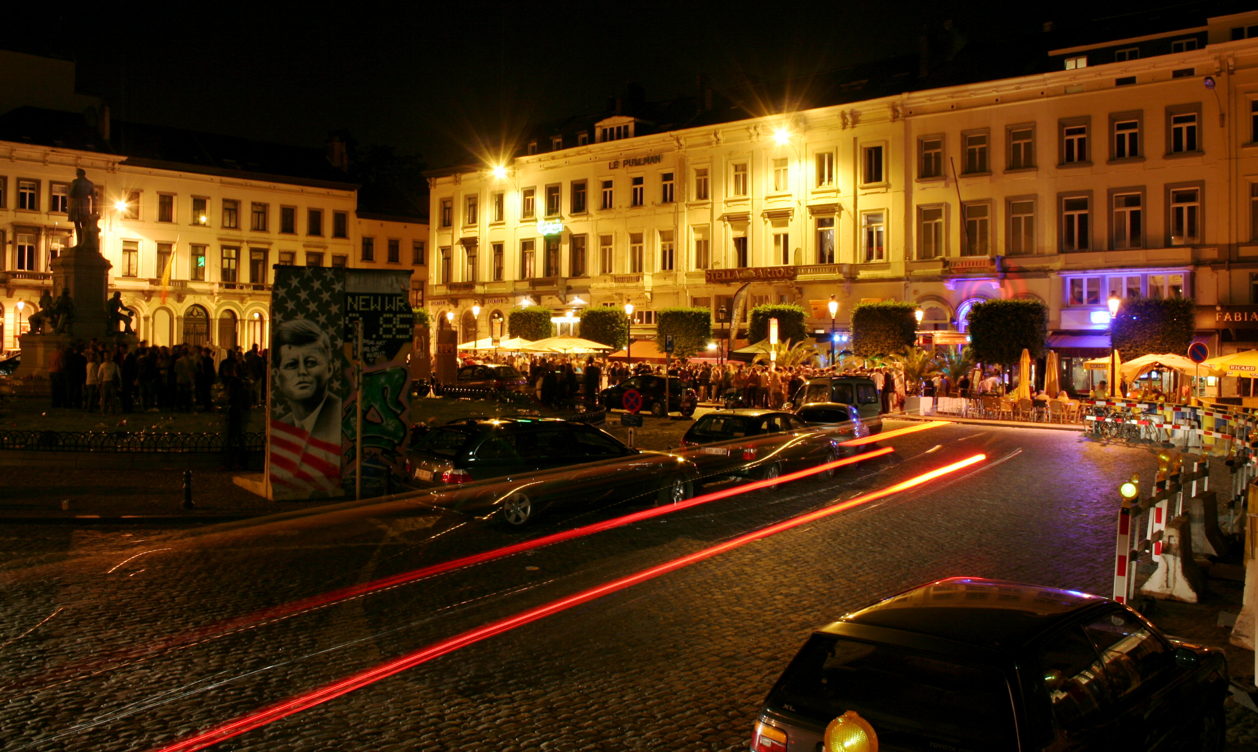 Place de Luxembourg, Brussels, Belgium. Popular spot for after work drinks. June 2010. Notice the sections of the Berlin Wall on temporary display in the middle of the square.